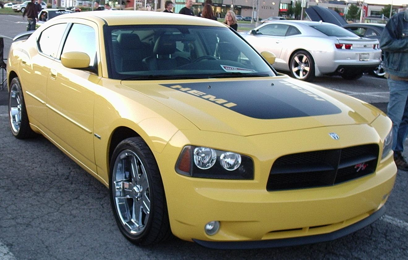 Dodge Charger Daytona photographed in Laval, Quebec, Canada at Les chauds vendredis.